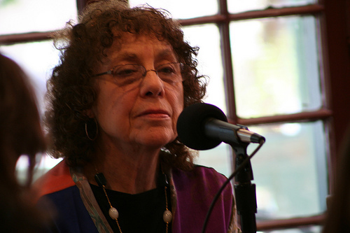 March 24 -25, 2008 KWH Calendar